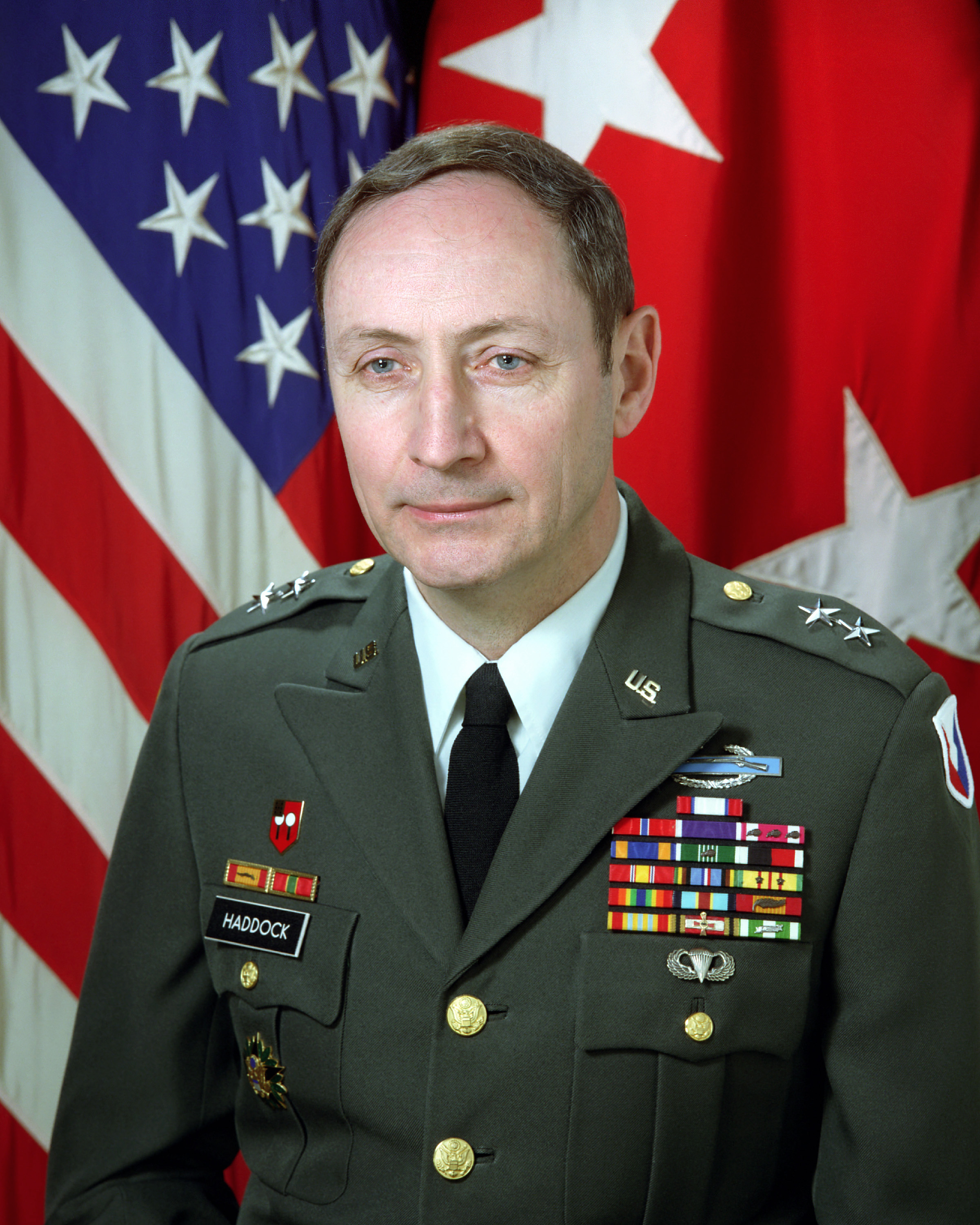 Portrait U. S. Army Maj. Gen. Raymond E. Haddock (Uncovered) U.S. Army Photo by Mr. Russell F. Roederer, CIV